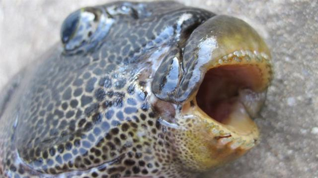 Mouth of Aplodactylus punctatus.